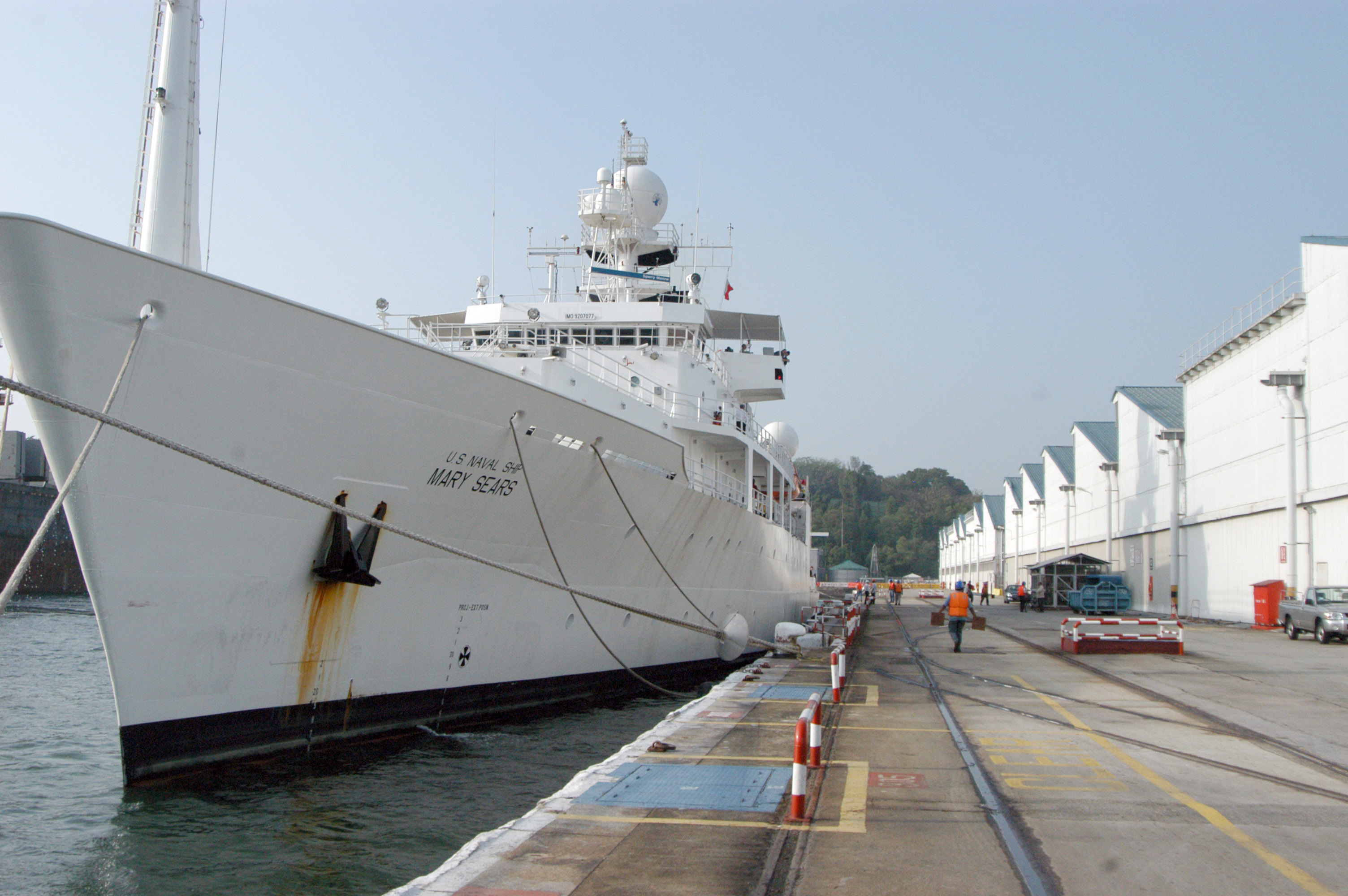 Singapore (Jan. 29, 2007) – The Military Sealift Command (MSC) oceanographic survey ship USNS Mary Sears (T-AGS 65) shown moored in Singapore after a successful mission to search for and locate missing Adam Air Flight KI 574, which disappeared off the coast of West Sulawesi, Indonesia on January 1, 2007. During the mission a search team aboard Mary Sears located pingers from Flight KI 574 and mapped the aircraft’s debris field at a depth between 1500 and 1900 meters. U.S. Navy photo by Mass Communication Specialist 2nd Class Devin Dorney (RELEASED)